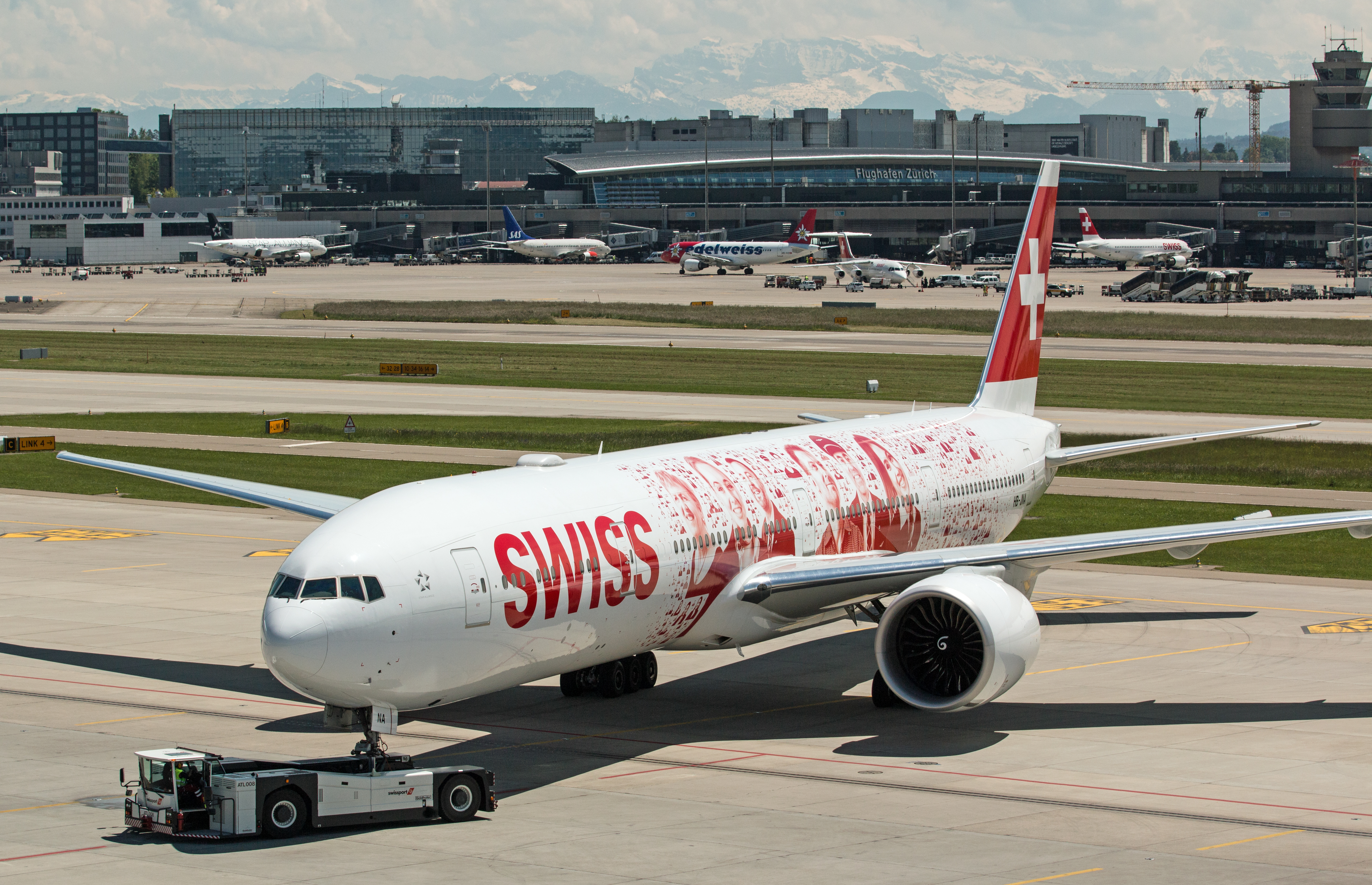 Boeing B777-3DEER People's Plane Livery First flight date 15.12.2015